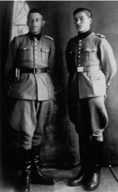 Officers of the 115 Schutzmannschaft Battalion in Lithuanian uniform (1942)